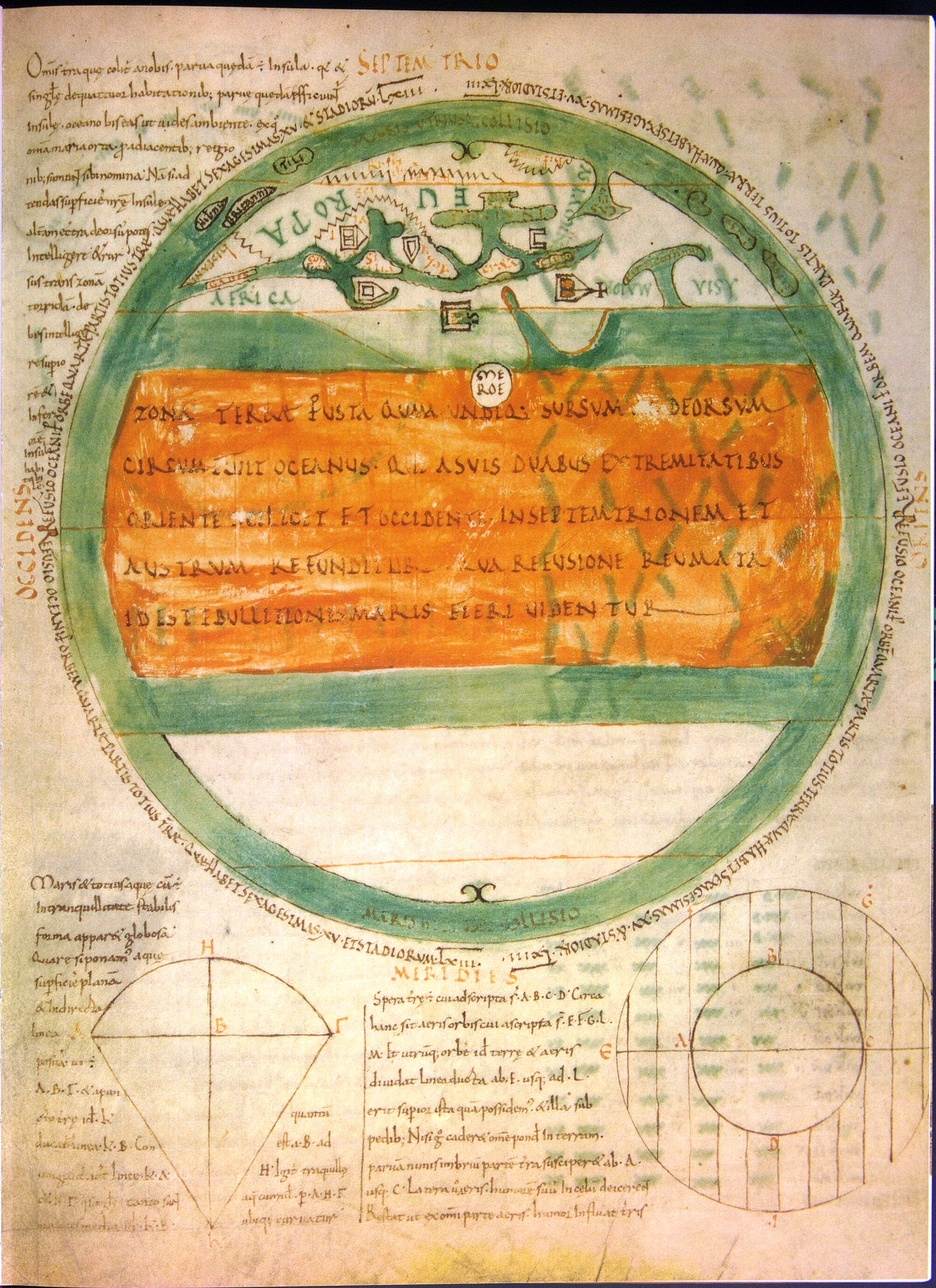 Abbo’s map of the world according to Macrobius in the manuscript Berlin, Staatsbibliothek, Ms. Phill. 1833, fol. 39v.